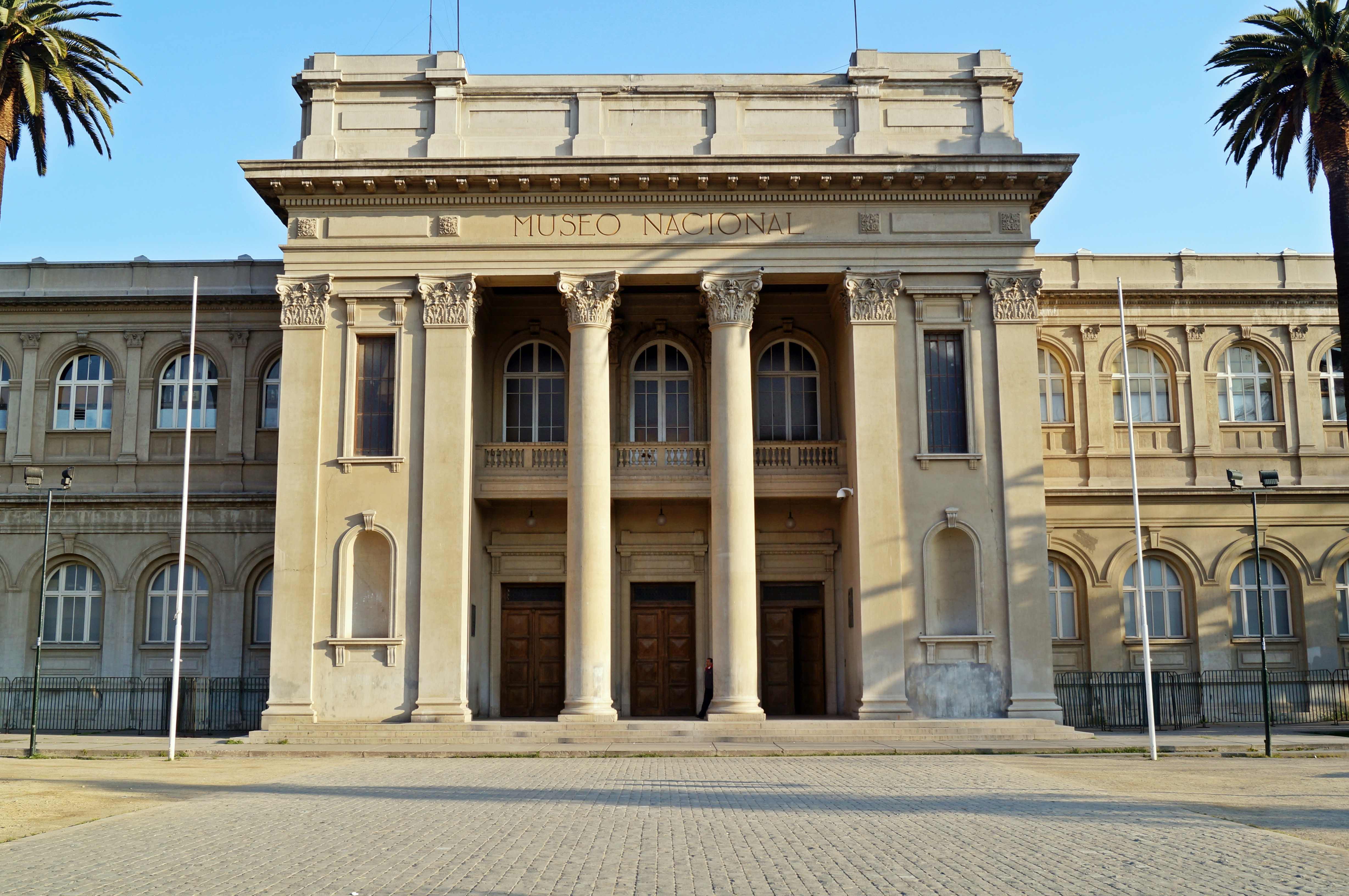 This is a photo of a national monument in Chile: 879